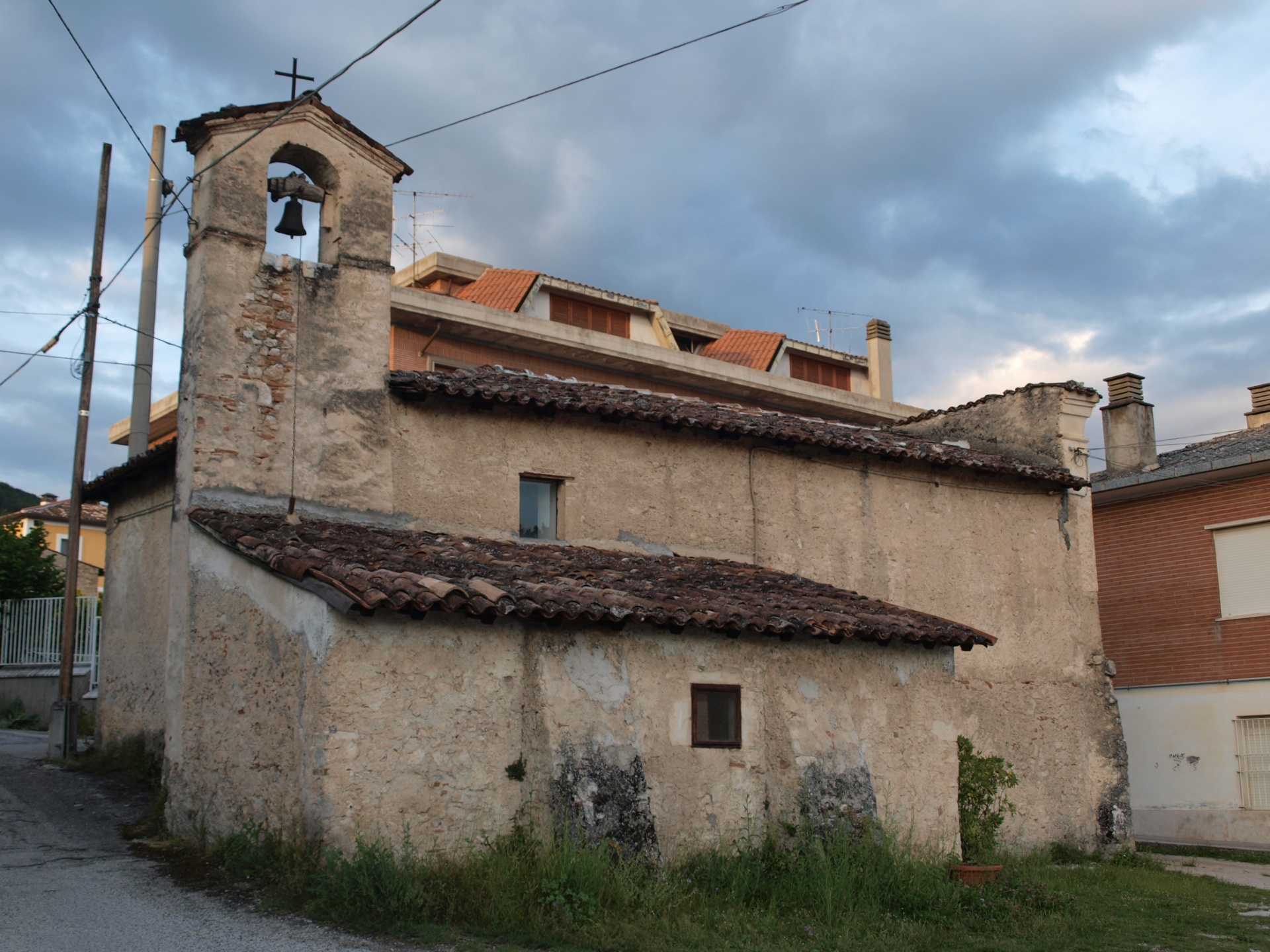 Church of Saint Peter (San Pietro) in town Pizzoli, XIII century. Parish of Saint Stephen the First Martyr (province L'Aquila, Abruzzo region, Italy)